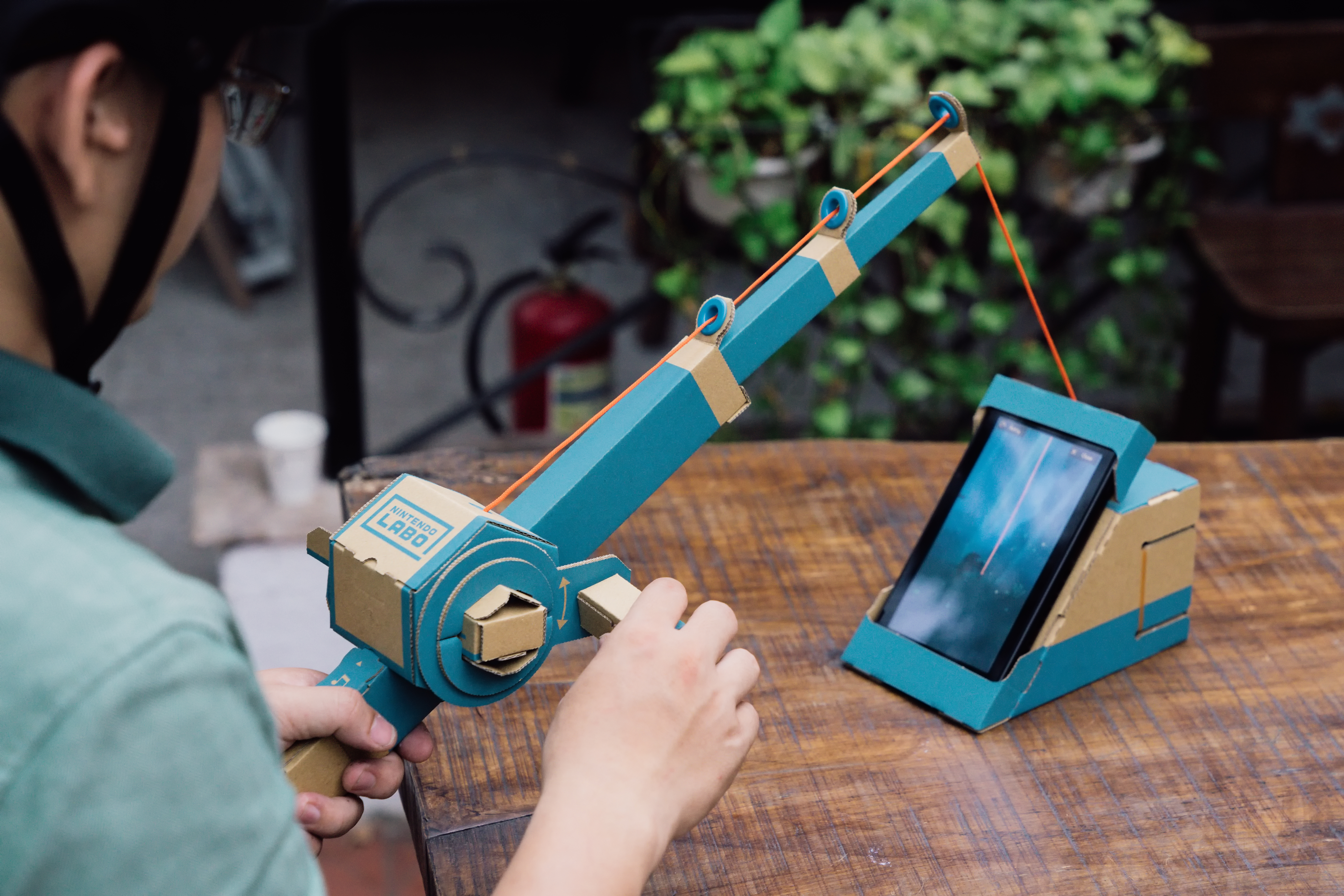 The Fishing Rod Toy-Con for Nintendo Labo. While there is copyrighted elements on the Switch screen, these are considered in de minimus to the overall photo showing the constructed fishing pole